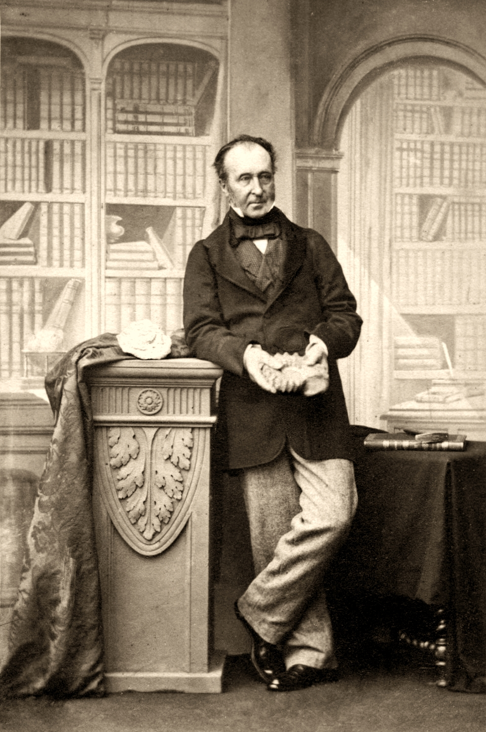 Portrait of Sir Roderick Impey Murchison (1792-1871), Geologist. Photo by Camille Silvy, 1860.